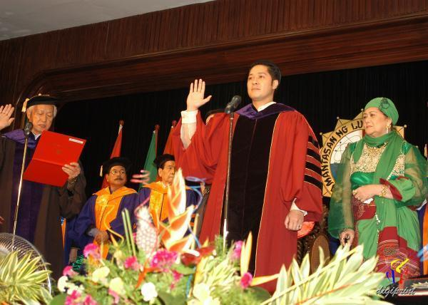 The Investure of Adel Tamano as the 7th President of the Pamantasan ng Lungsod ng Maynila (University of the City of Manila).